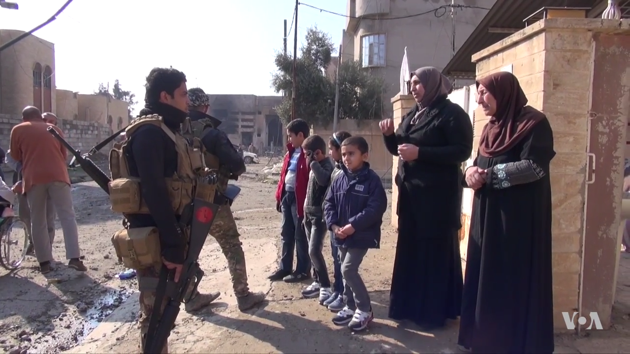 Iraqi soldiers and civilians in the ruins of eastern Mosul after they captured it from the Islamic State.